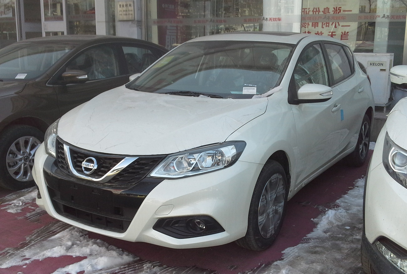 Nissan Tiida C13 photographed in Hohhot, Inner Mongolia province, China.